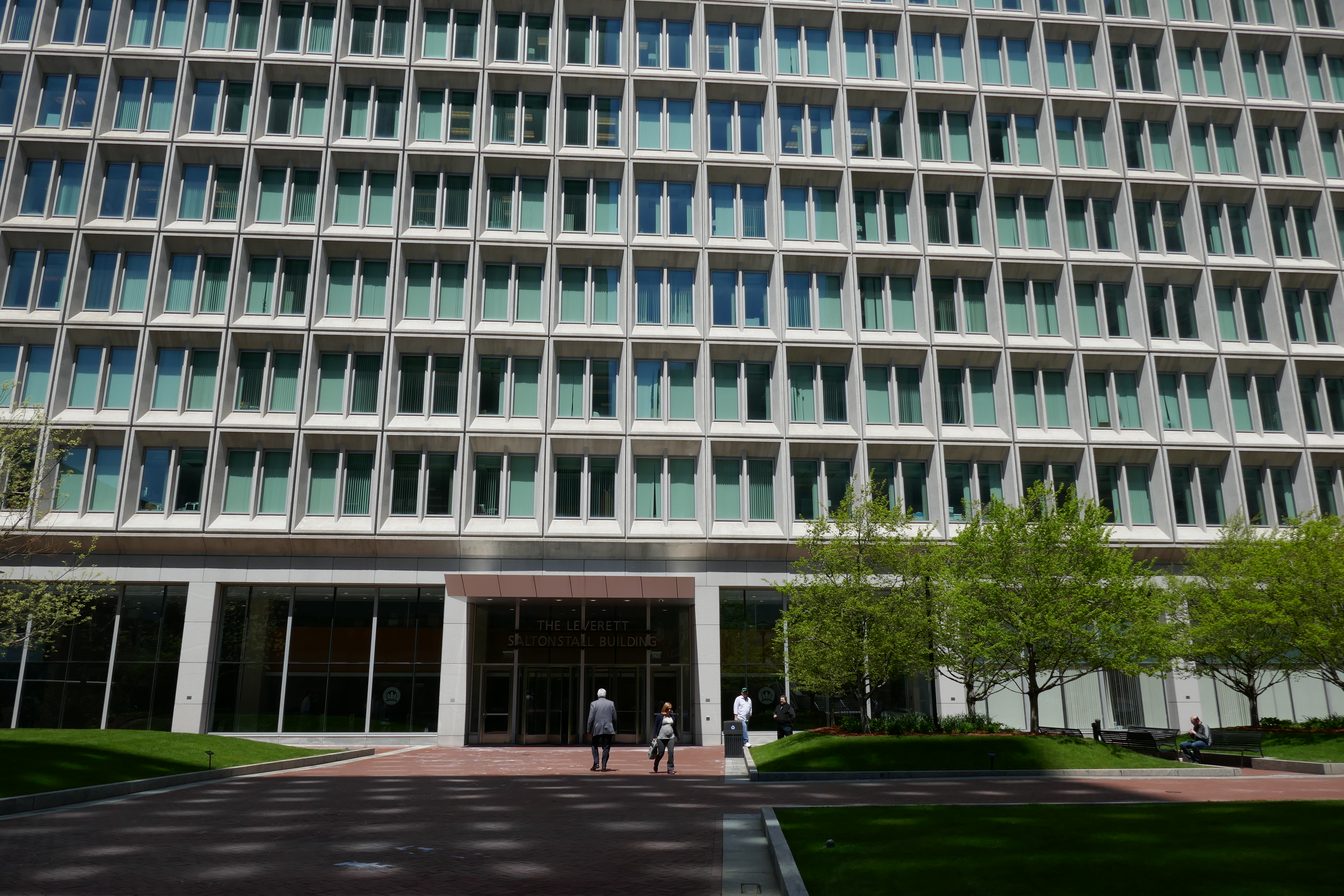 Leverett Saltonstall Plaza and 100 Cambridge Street in Boston